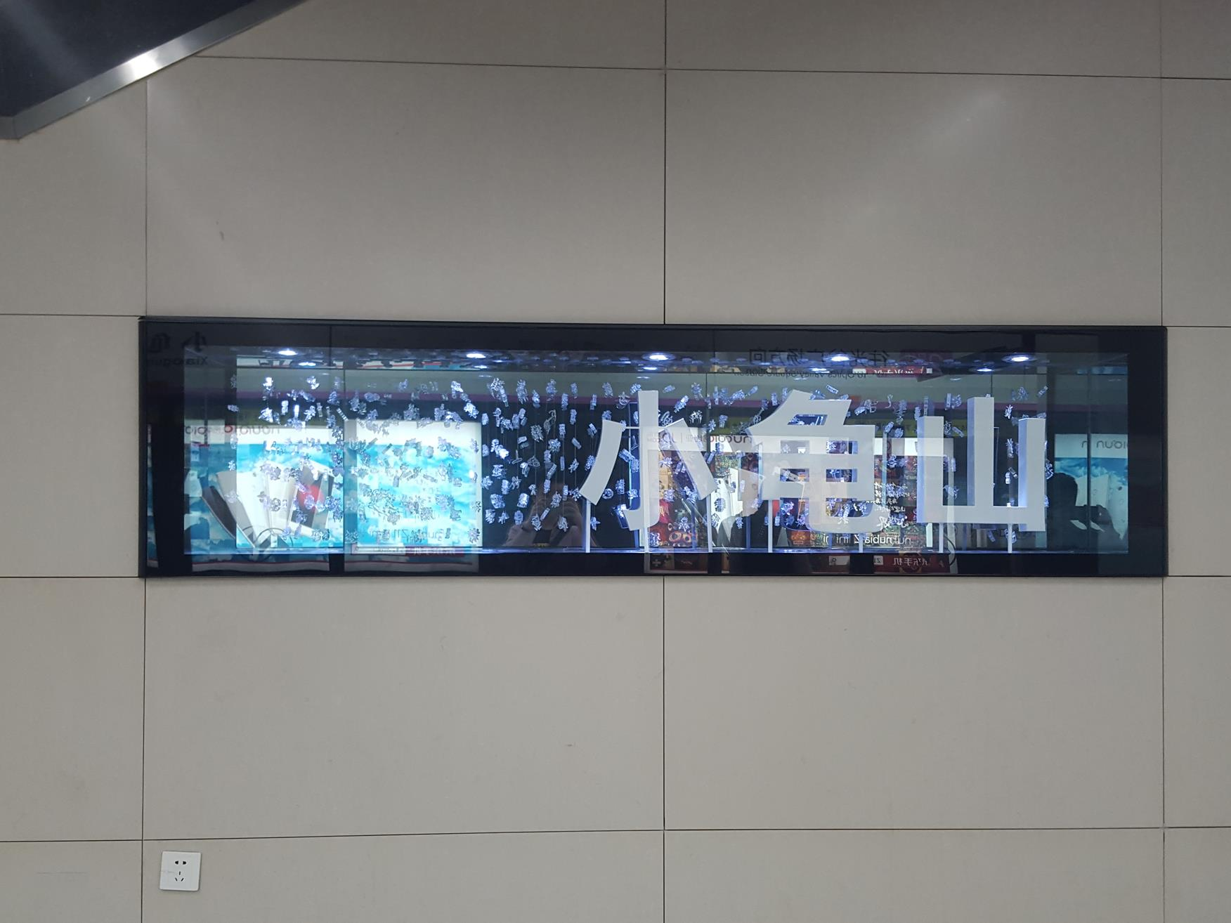 Name Box of Xiaoguishan Station, Wuhan Metro